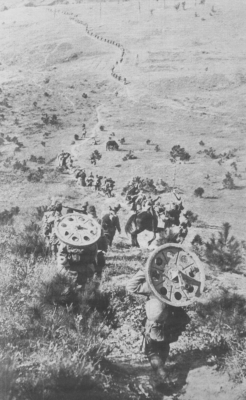 The Japanese military unit gradually closes up to Nanking Castle for all-out attack, carrying guns and wheels on their shoulders and backs.(Dec. 9, 1937)